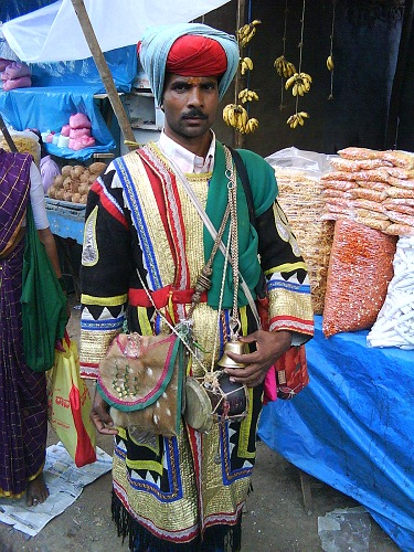 This is the image of a vaghya - a member of the servant clan of the Hindu God khandoba who devotes his life in service his lord. Male servant is called vaghya; the female counterpart is called muraLi in Marathi language. This deity is popular in Maharashtra, Karnataka and Andhra provinces of India.